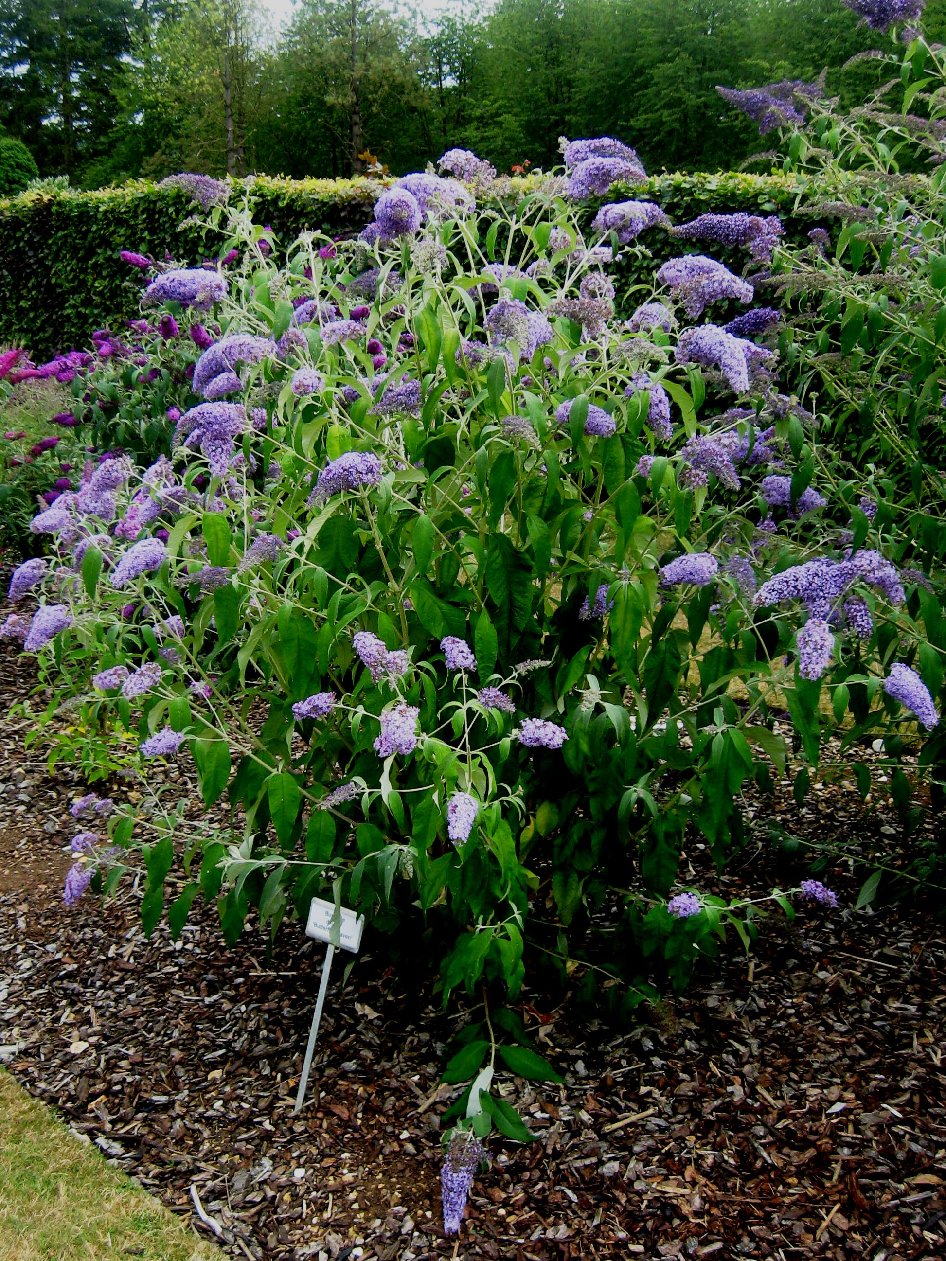 Photo of Buddleja davidii cultivar 'Butterfly Heaven' at Longstock Park, Hampshire, UK